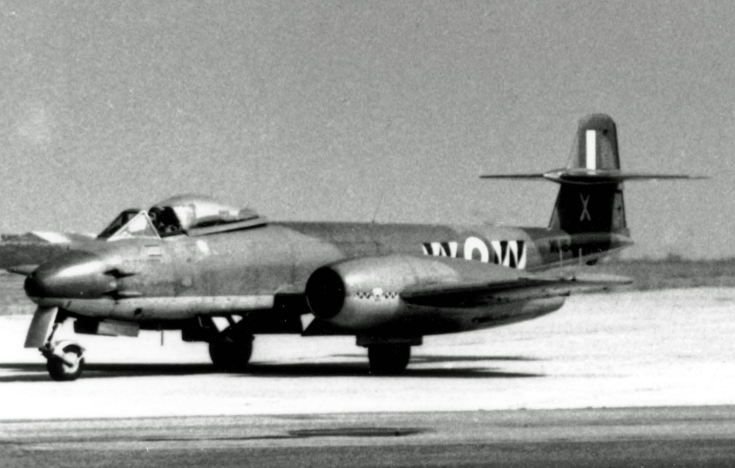 74 Squadron Gloster Meteor F.8 based at RAF Horsham St Faith, Norfolk, visiting RAF Hooton Park, Cheshire